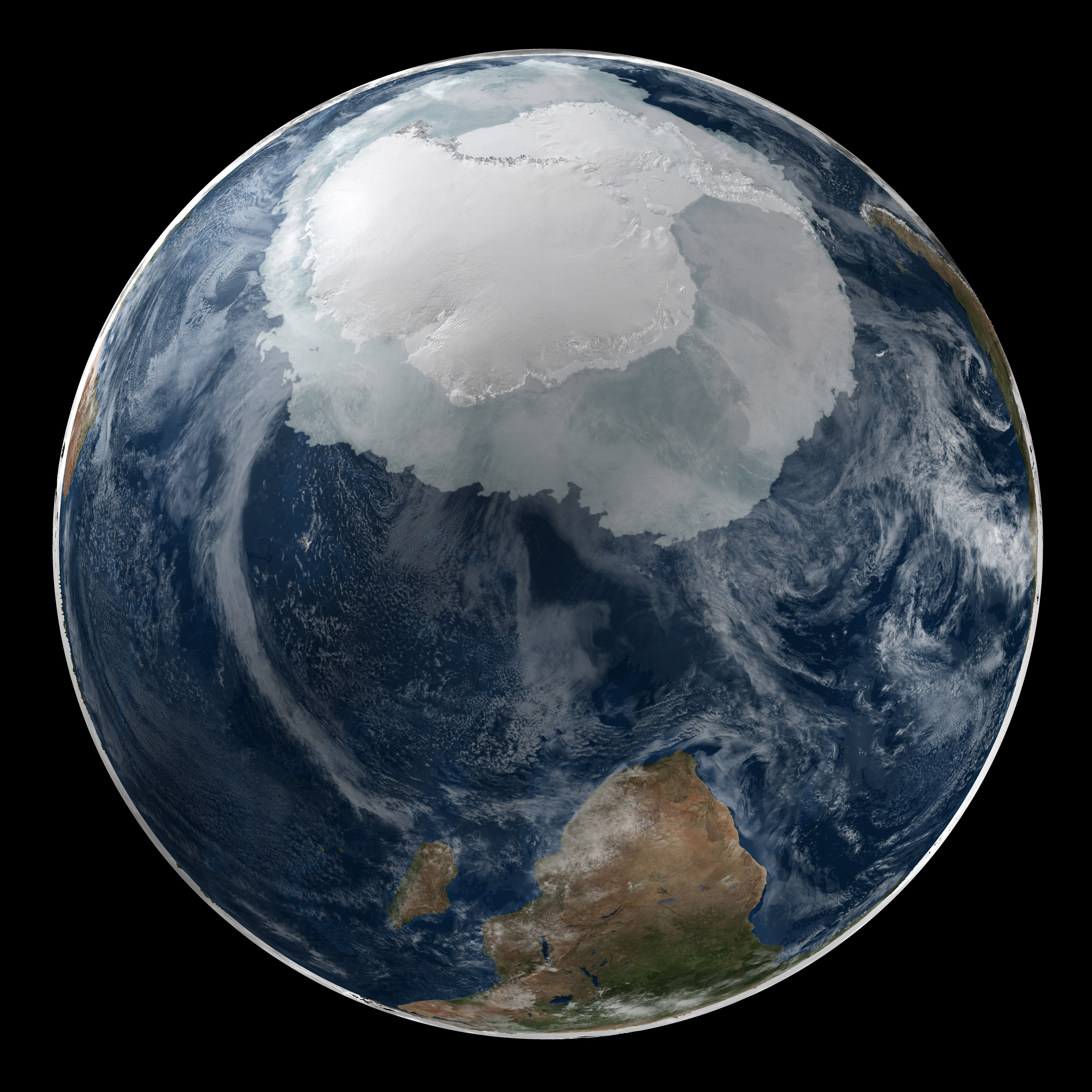 Collection: NASA Scientific Visualization Studio Collection.Compilation of NASA stills, film and video, created in partnership with Internet Archive.Image n.a003402. This image shows a view of the Earth on September 21, 2005 with the full Antarctic region visible. Description: This matching pair of images showing a global view of the Arctic and Antarctic . The images also show the sea ice in the date at which it was at its minimum extent in the northern hemisphere.